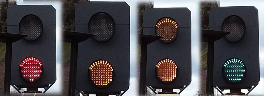 Montage of the normal four aspects of a typical British Rail four-aspect railway signal using LEDs as the light source. This example is at the northern (up) end of Platform 3 of South Croydon railway station.